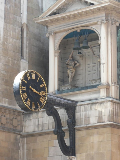 City of London: St. Dunstan-in-the-West clock Detail of the clock, with the figures striking the bells, at 864050.